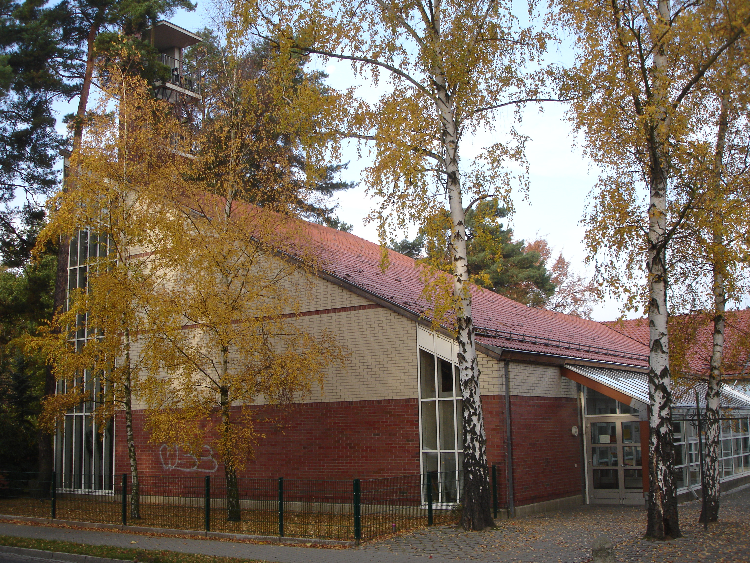 Kleinmachnow katholische Kirche St. Thomas Morus / catholic church St. Morus